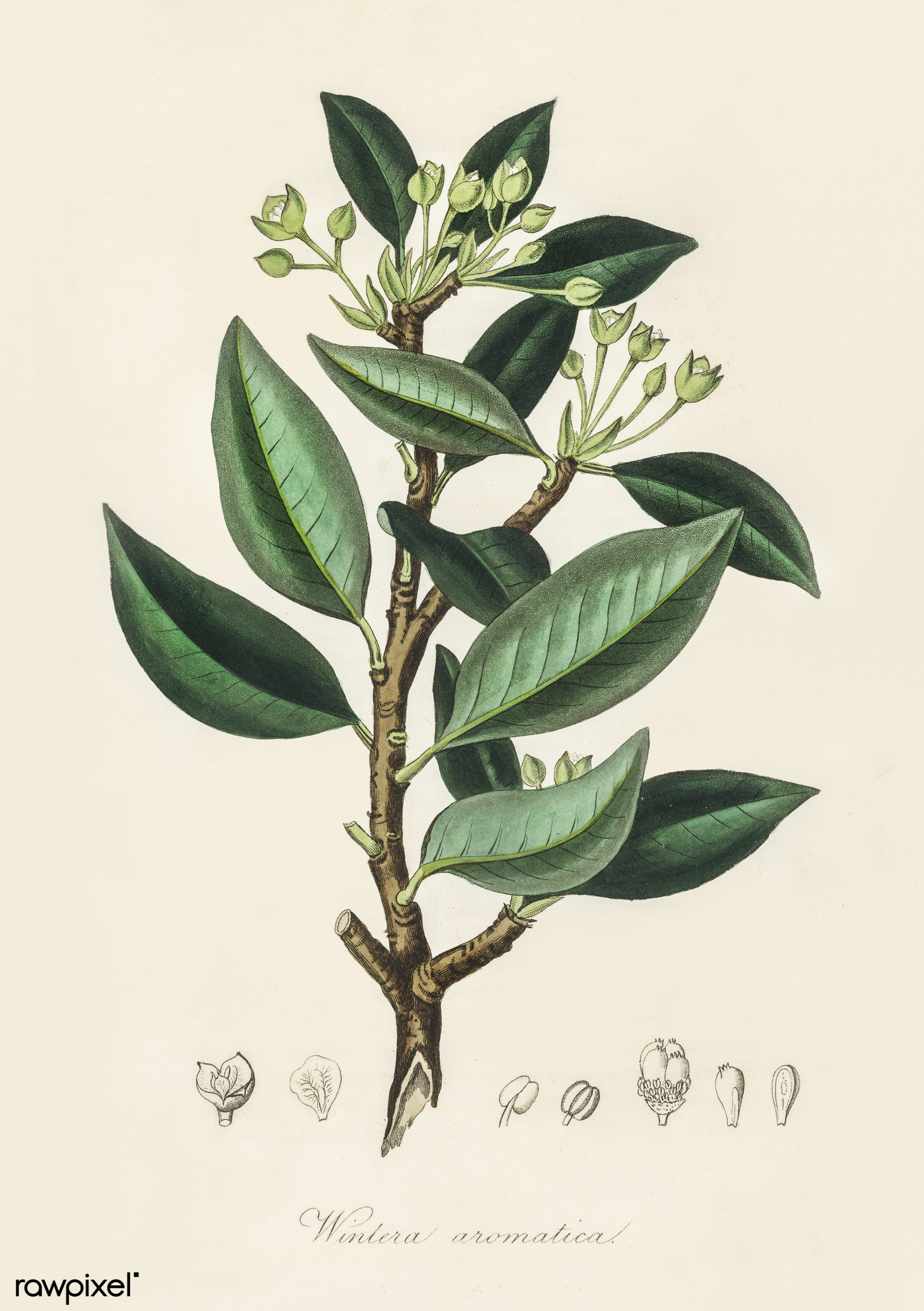 Wintera aromatica illustration from Medical Botany (1836) by John Stephenson and James Morss Churchill.